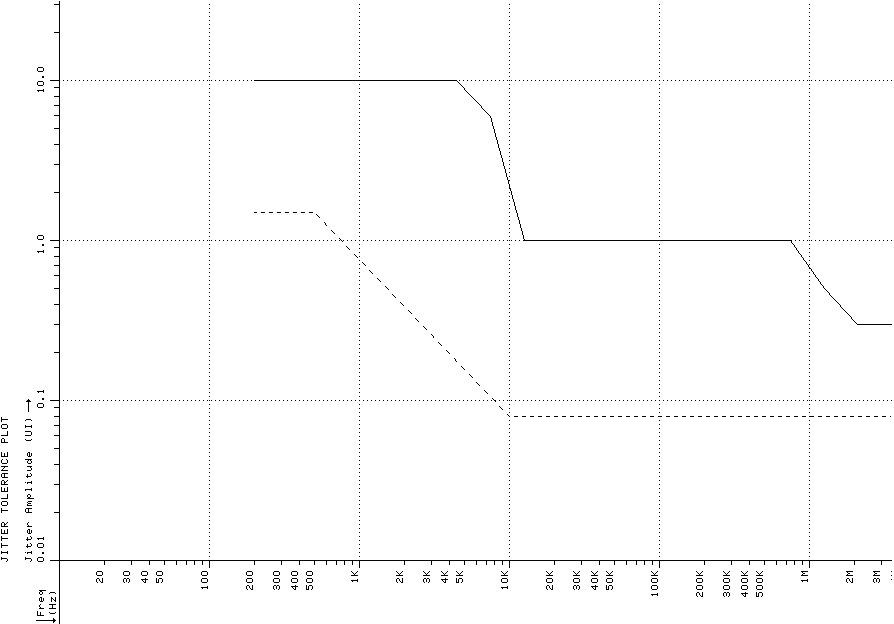 The measurement of the Maximum Tolerable Jitter (MTJ) for a receiver of PDH analiser (Wandell&Golterman PF140) for PCM unframed 140 Mb/s signal (input: unbalanced 75 ohm, code: CMI, pattern: PRBS23INV, G823 mask: 140 Mb/s).